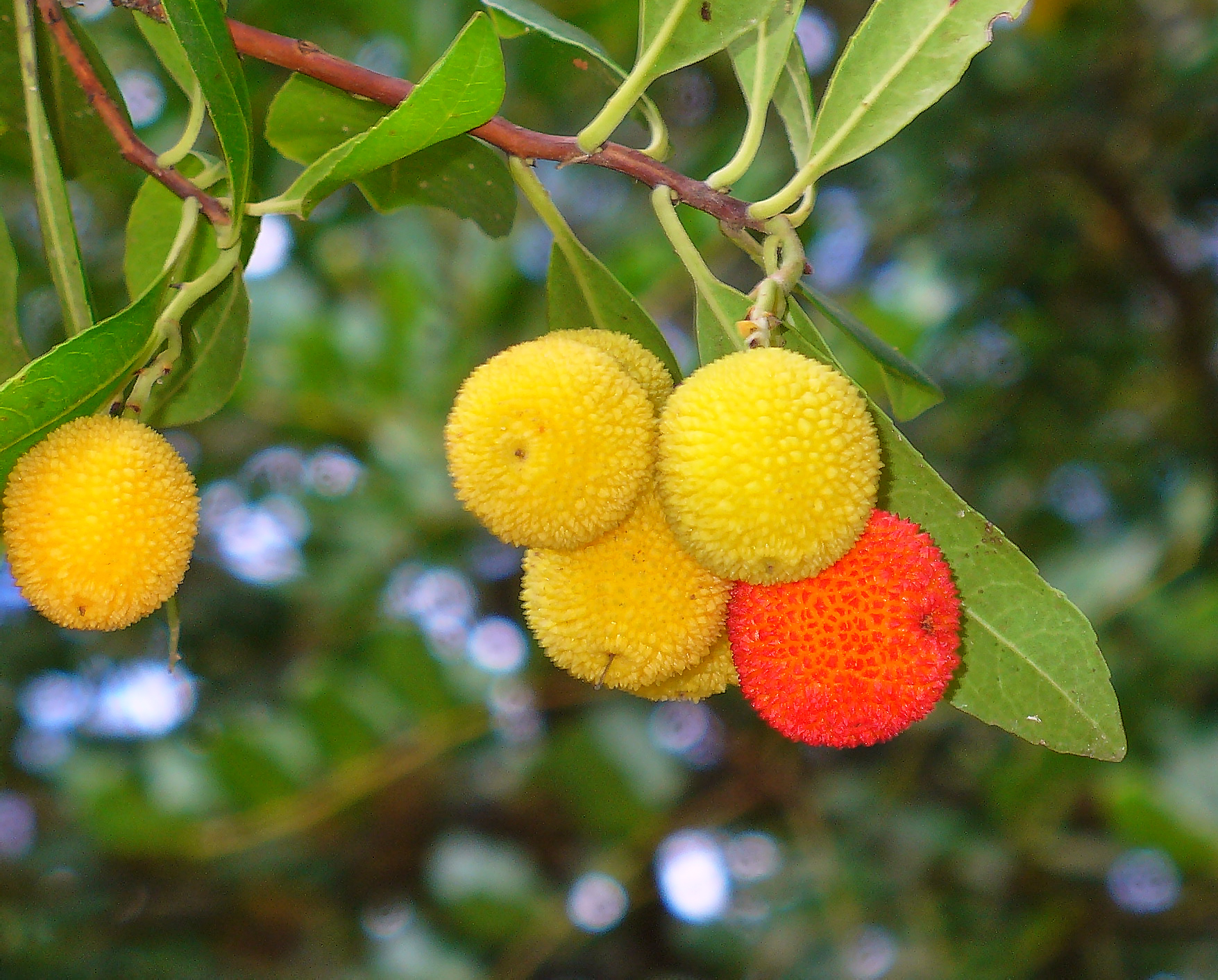 Strawberry Tree; Botanical garden, Santuari de Lluc, Escorca, Majorca.